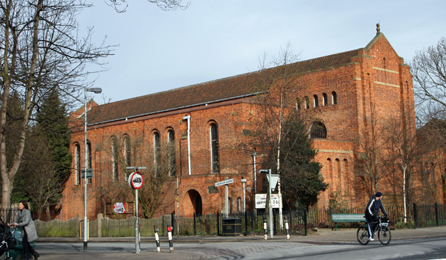 St Columba's Church, East Hull, East Riding of Yorkshire, England.Looking diagonally across Holderness Road.